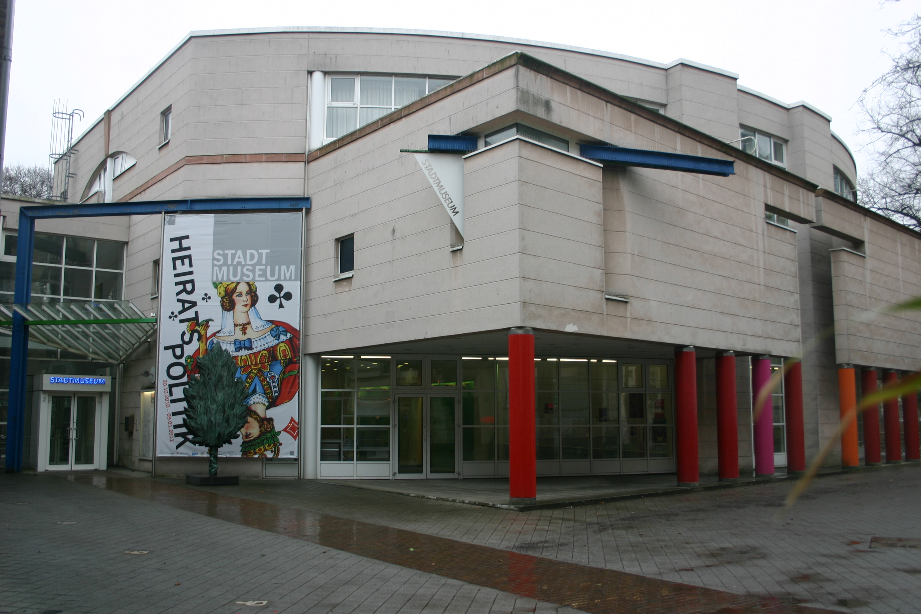 main entrance Berger Allee